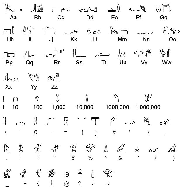 One of the various goa'uld alphabets seen on Stargate SG-1.